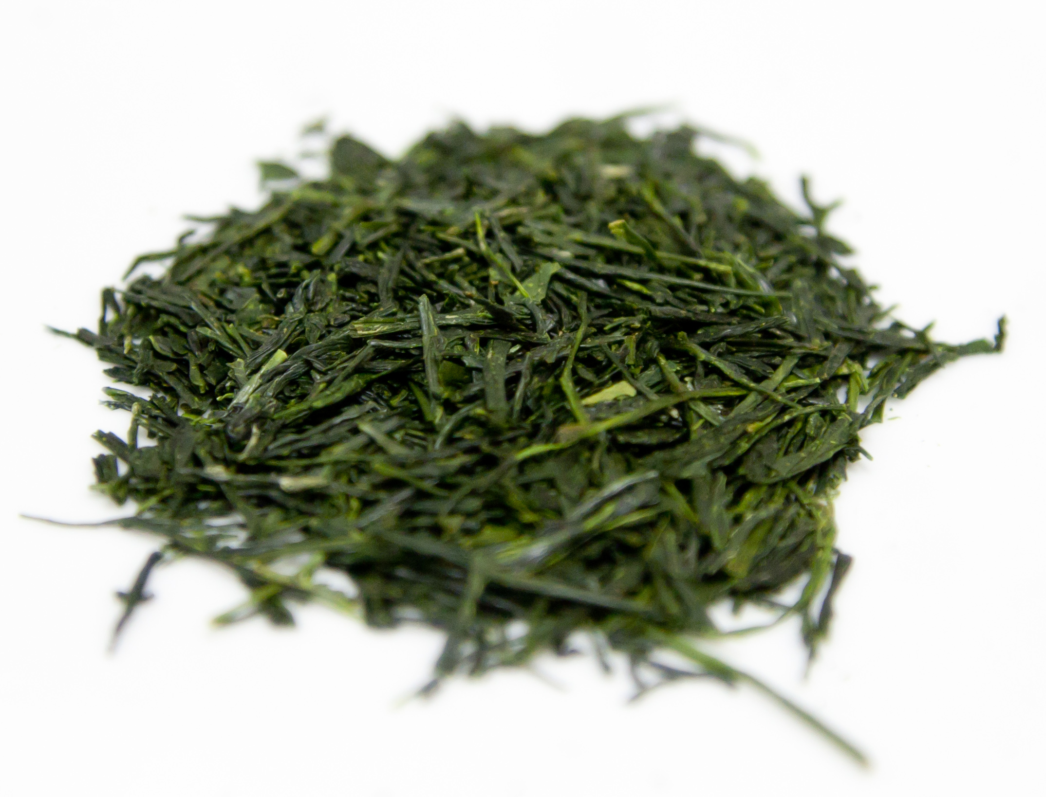 Maiko Kinari Shincha from 2010.